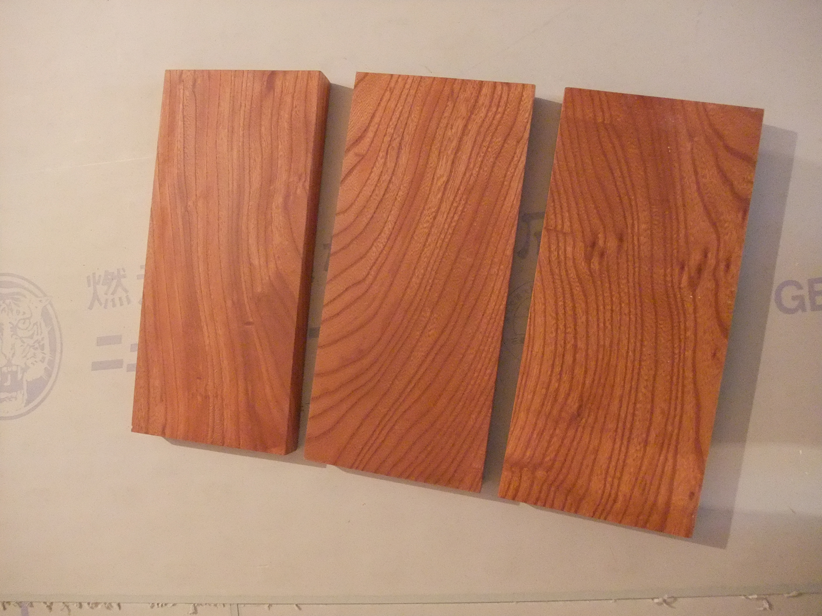 Zelkova serrata, untreated board. Old materials were used in the Japanese-style alcoves of old houses, worked as niche planks.